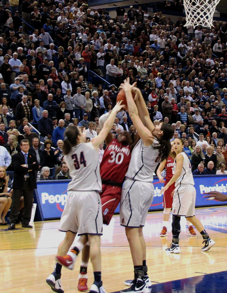 Stephanie Dolson Blocking Nneka Ogwumike in basketball game between Connecticut and Stanford on 21 November 2011